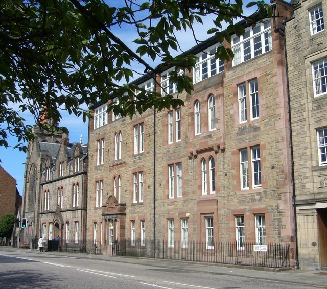 Deaconess Hospital, Pleasance Opened in 1894, the hospital attempted to meet the medical needs of the poor in the Pleasance. It is now used as offices by the Lothian Health Board.